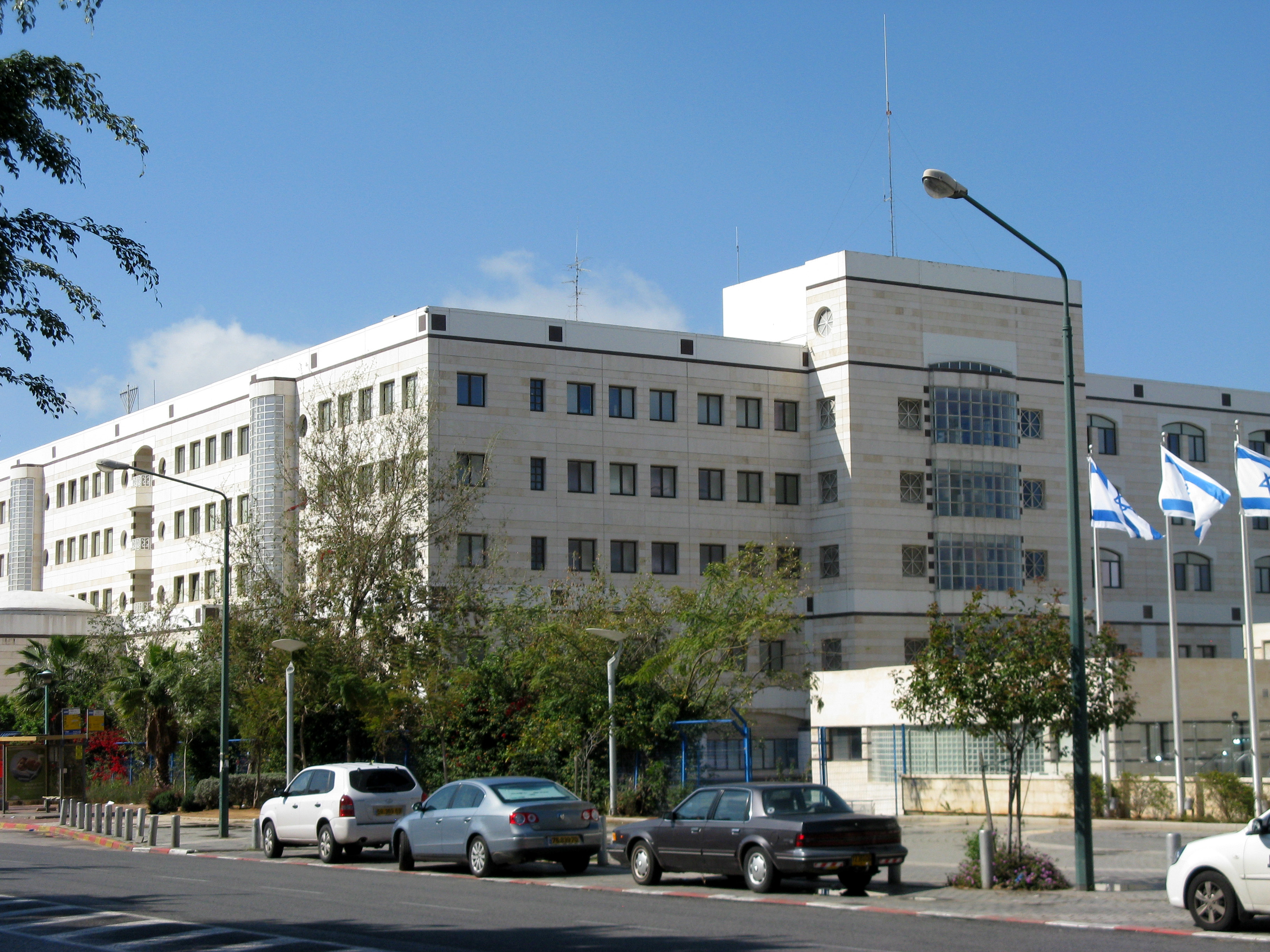 Schneider Children's Medical Center